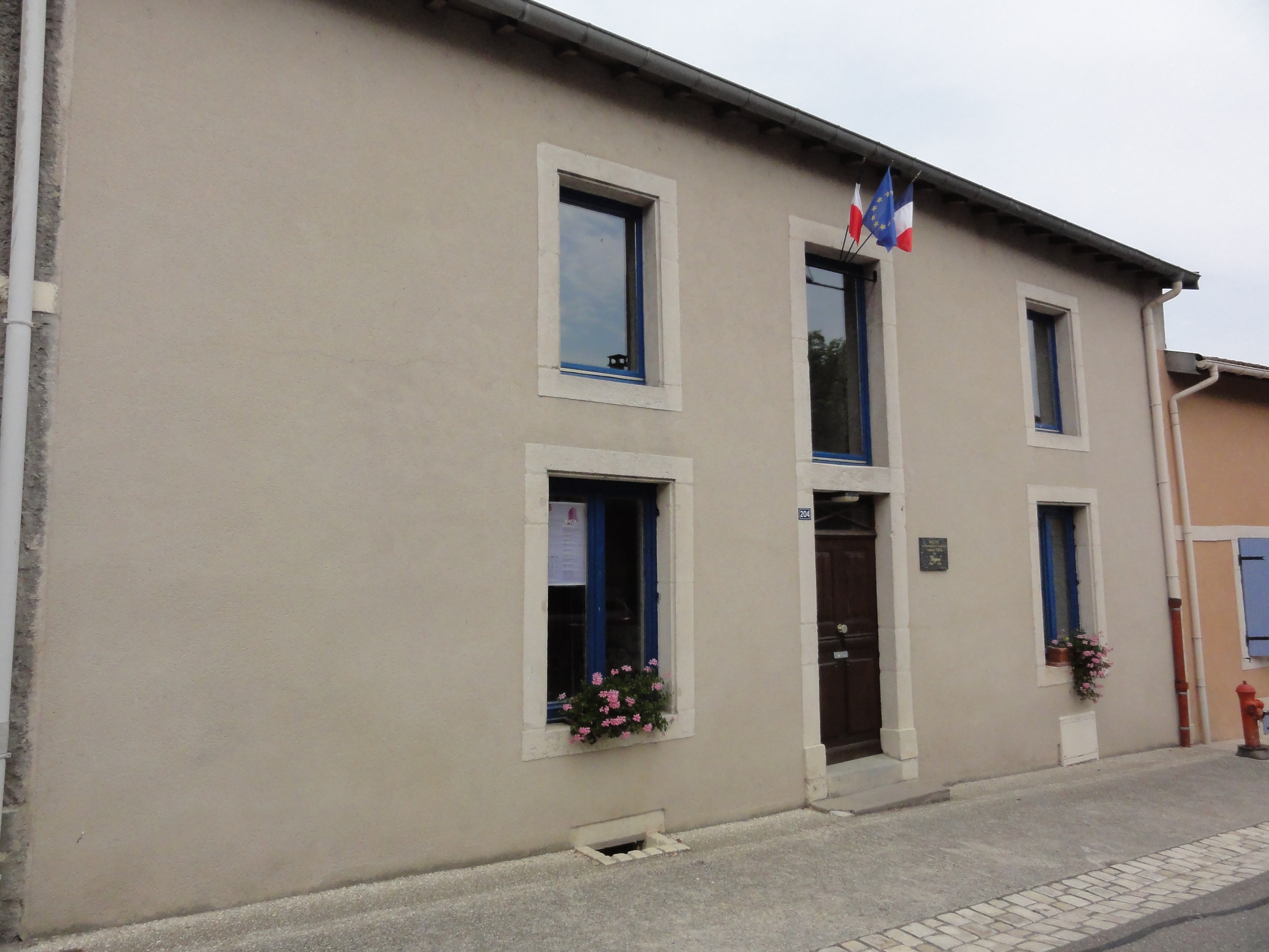 Pagney-derrière-Barine (Meurthe-et-M.) Maison Suzanne Kricq (1900-1944)